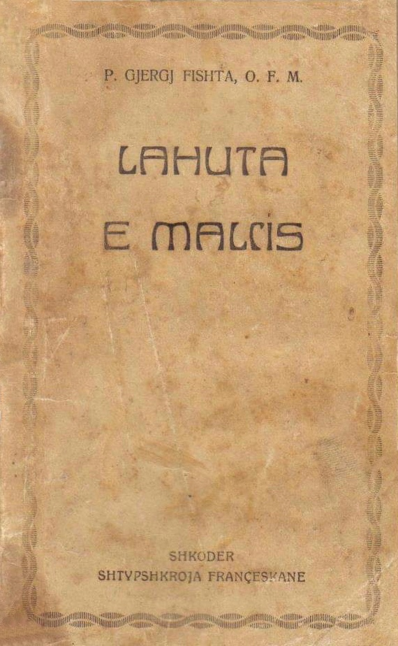 Lahuta e Malcis book cover